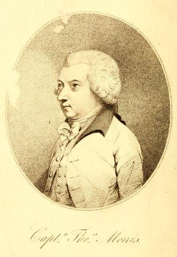 Portrait of Thomas Morris (1732?–1818?), soldier and songwriter.